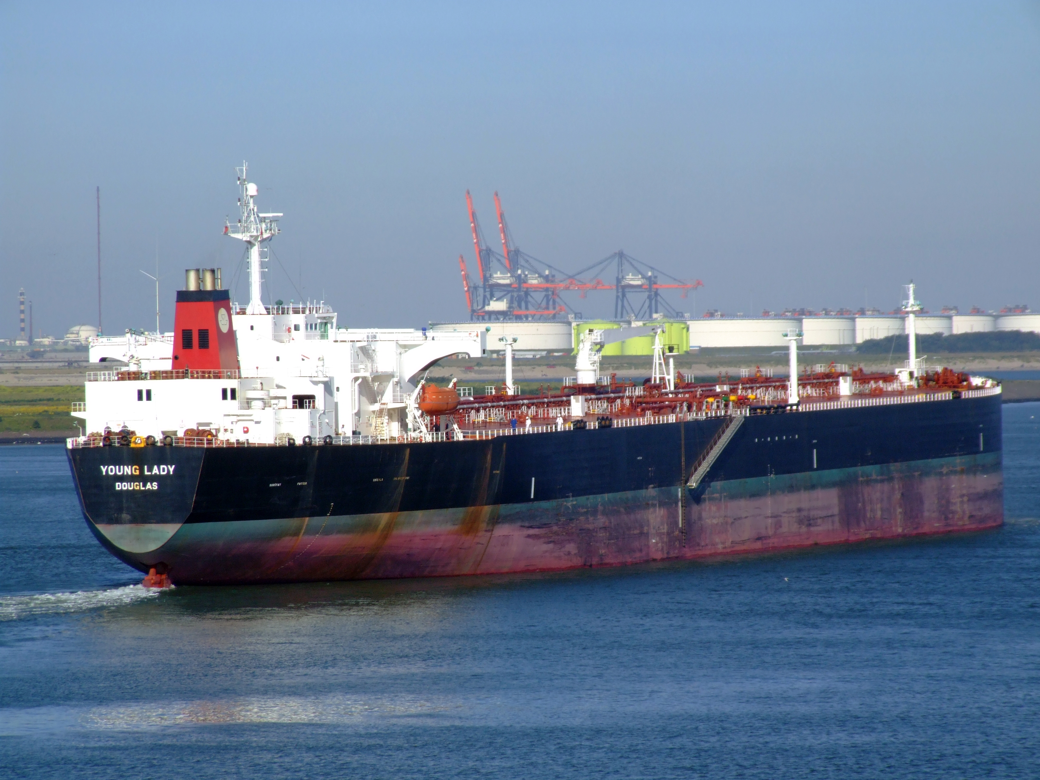 Young Lady leaving Port of Rotterdam, Holland 04-Aug-2007